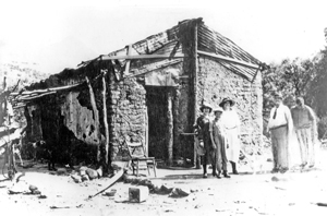 The White House adobe in Madera Canyon, Arizona, in the late 1880s. "The White House was perhaps the first permanent structure built in the canyon. It is thought to have been constructed by a sheepherder named Walden in the late 1870s or early 1880s."